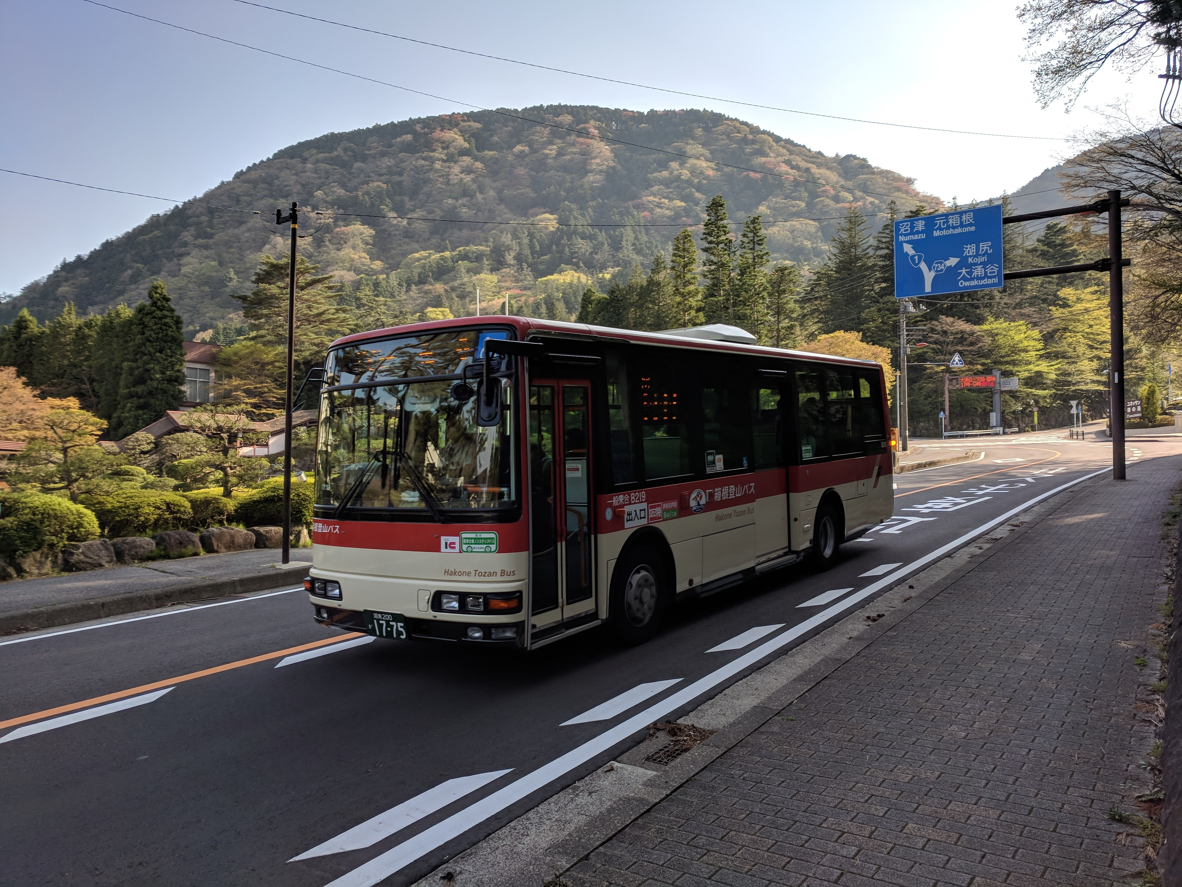 A transit bus marked "Hakone Tozan Bus" descends a hill along Route 1 near Kowakidani Station in the Hakone region.